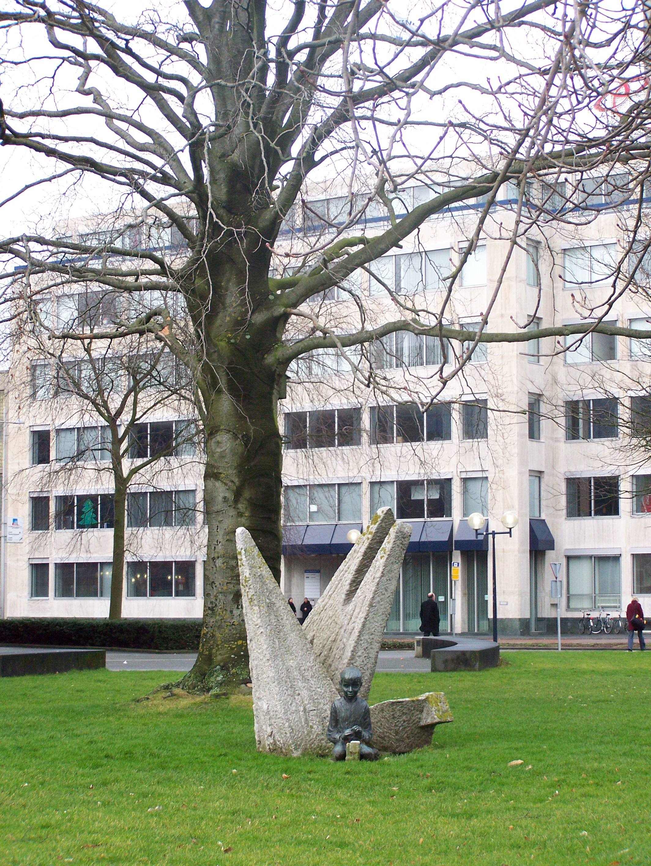 Sculpture "Kinderen bouwen voort" (Children will continue) by Maria van Everdingen. Placed at the Sophialaan near central Station in Leeuwarden in 1971.